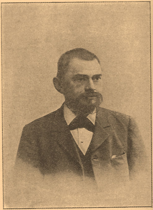 Illustration from Brockhaus and Efron Encyclopedic Dictionary (1890—1907)